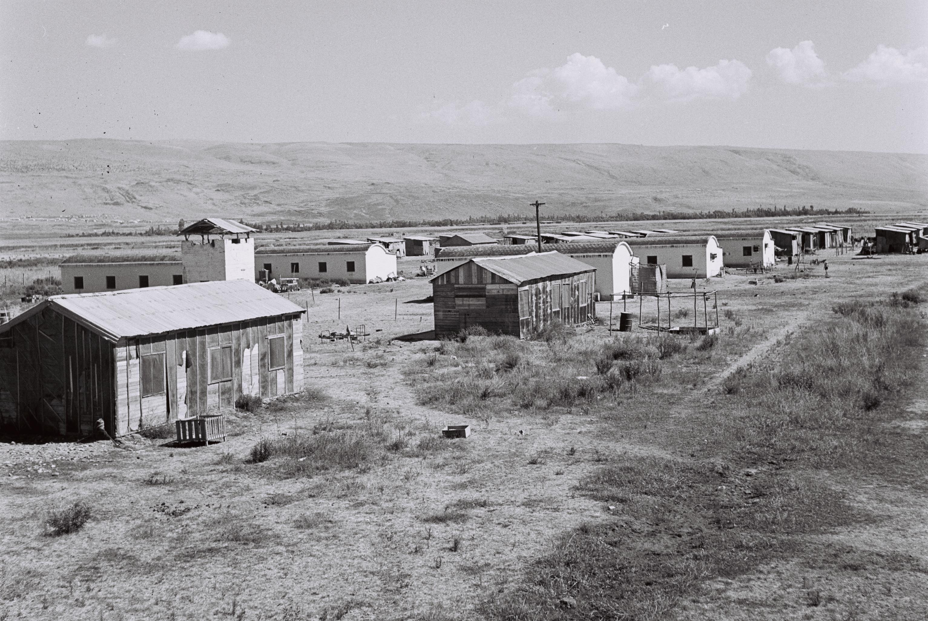 VIEW OF MOSHAV EIN HAEMEK IN SAMARIA. מושב עין העמק בשומרון.